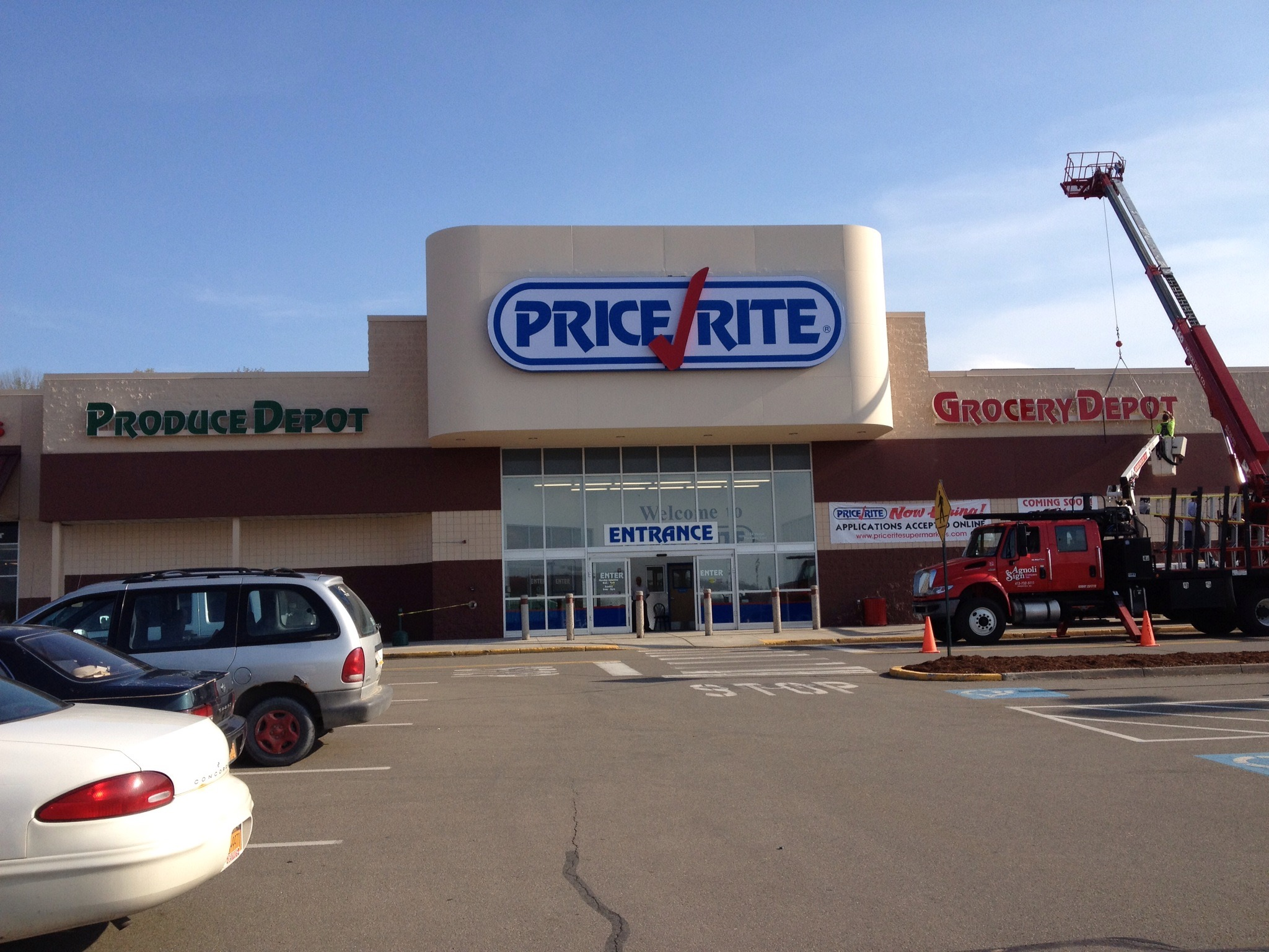 PriceRite Store being setup and prepared for Grand Opening in Vestal, NY